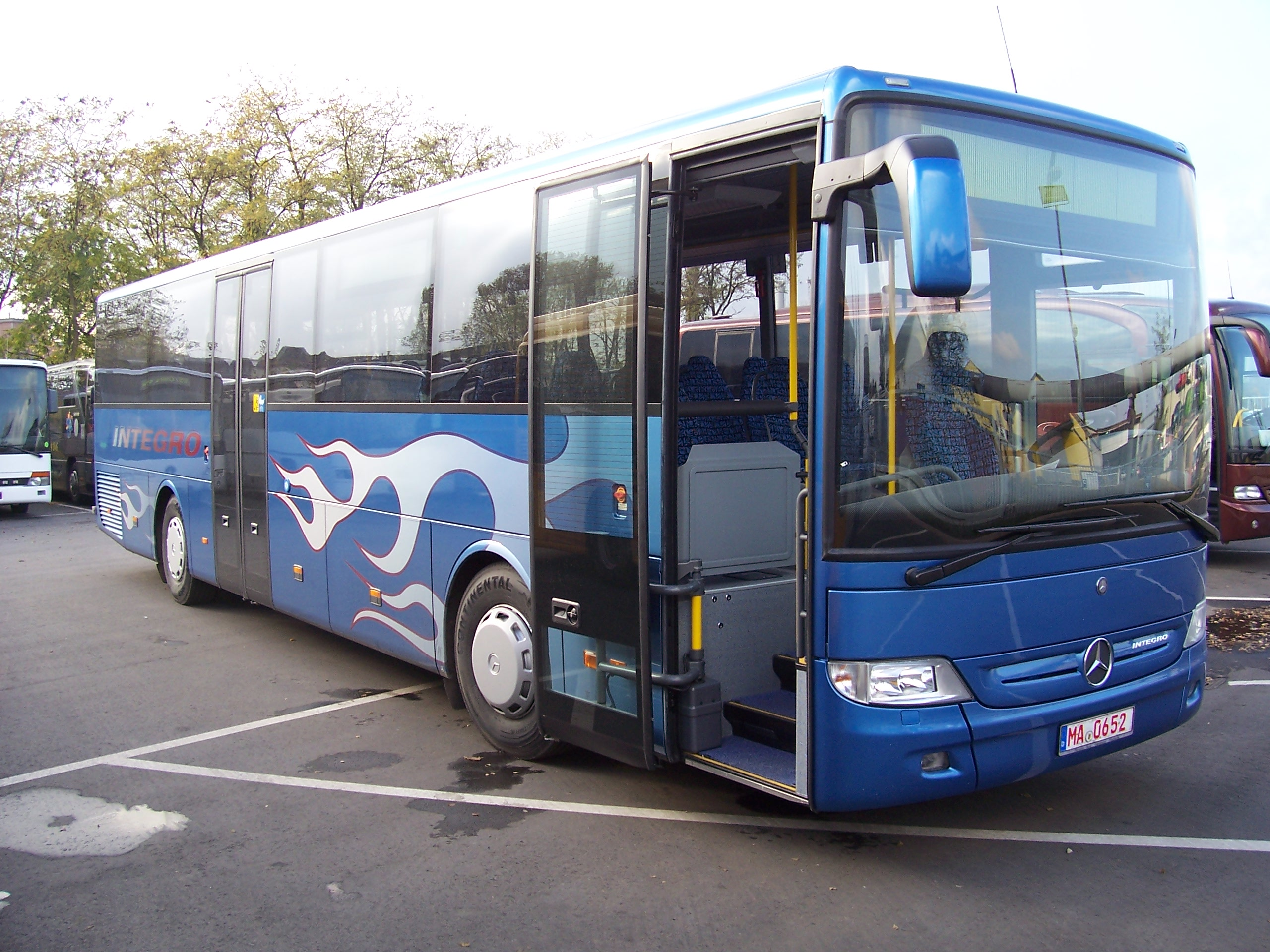 A Mercedes-Benz Integro bus shown at MOT 2005 in Mannheim, Germany My own photo from 19-nov-2005